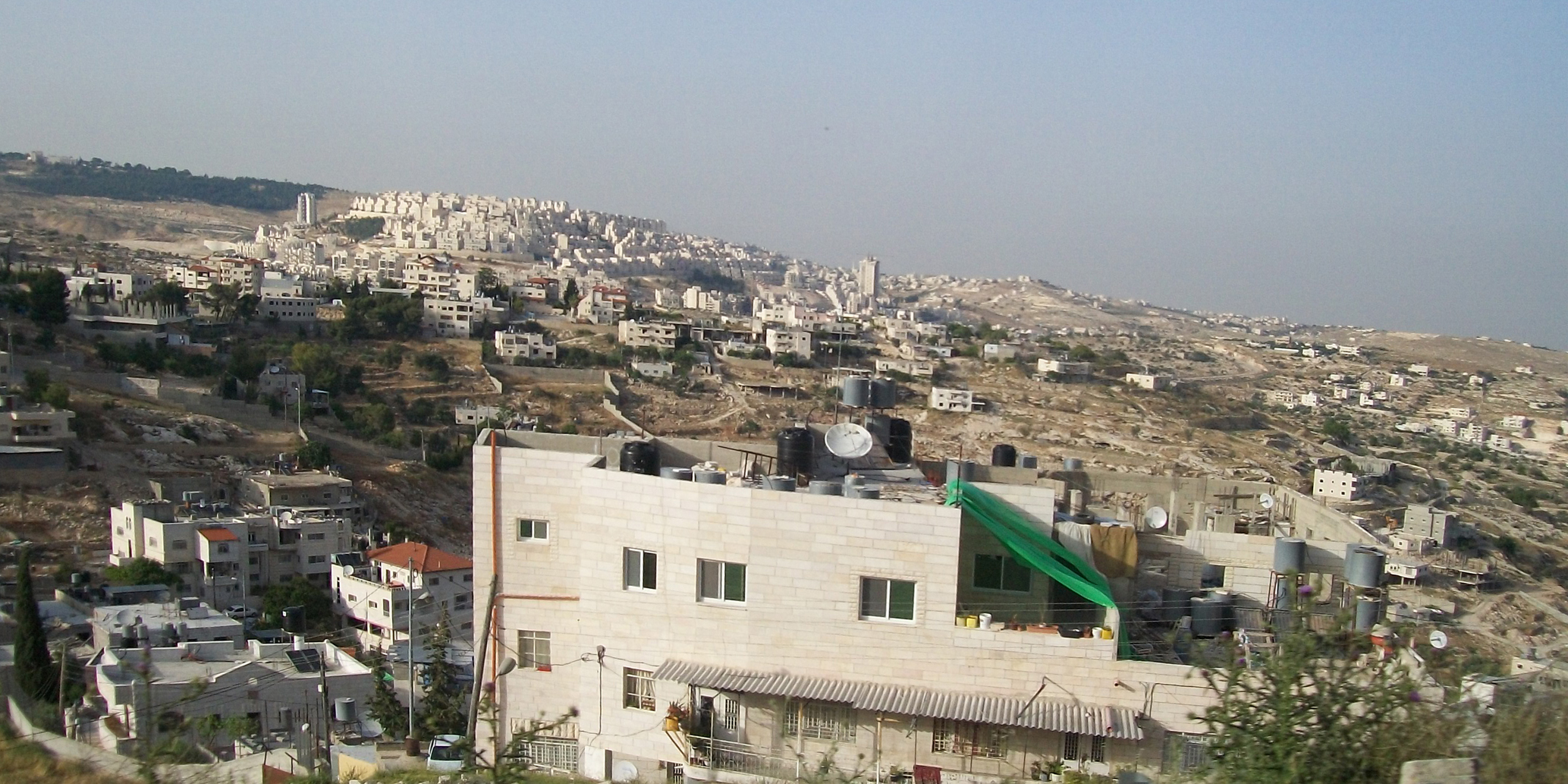 Bethlehem Panorama 2010